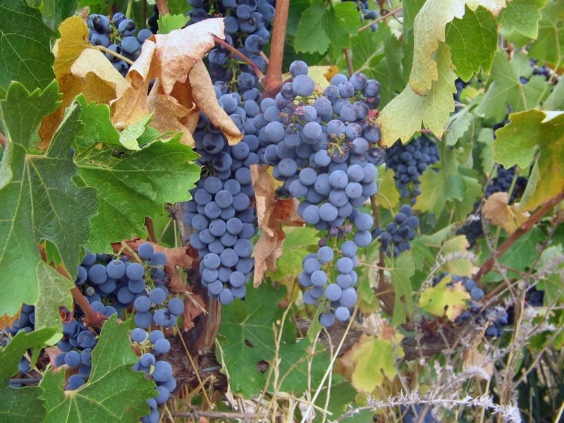 Cabernet Sauvignon grapes. Photo taken at Skillogalee Winery in the Clare Valley in 2006.